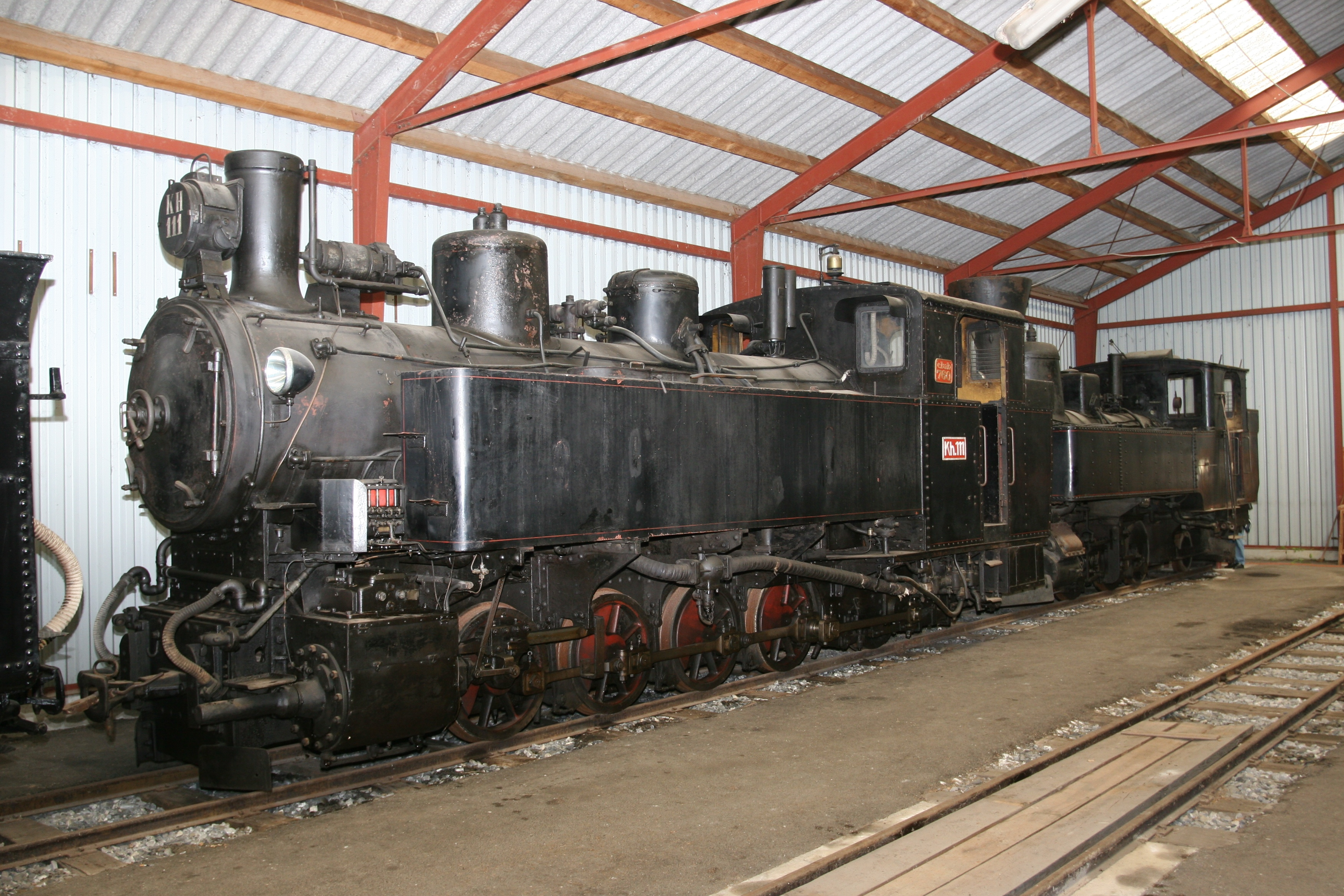 Steiermärkische Landesbahnen Kh.111 in Club 760's Frojach museum. This engine is a rare example of the Caprotti valve gear in Austria.